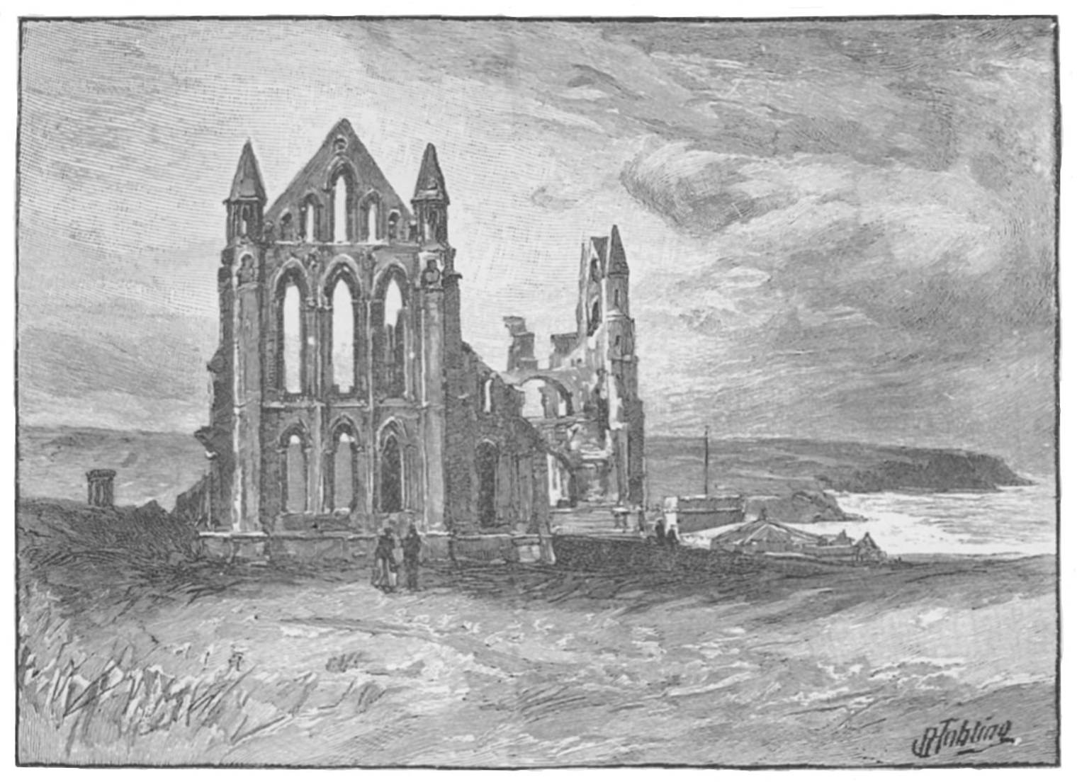 Whitby Abbey - Project Gutenberg eText 16785.